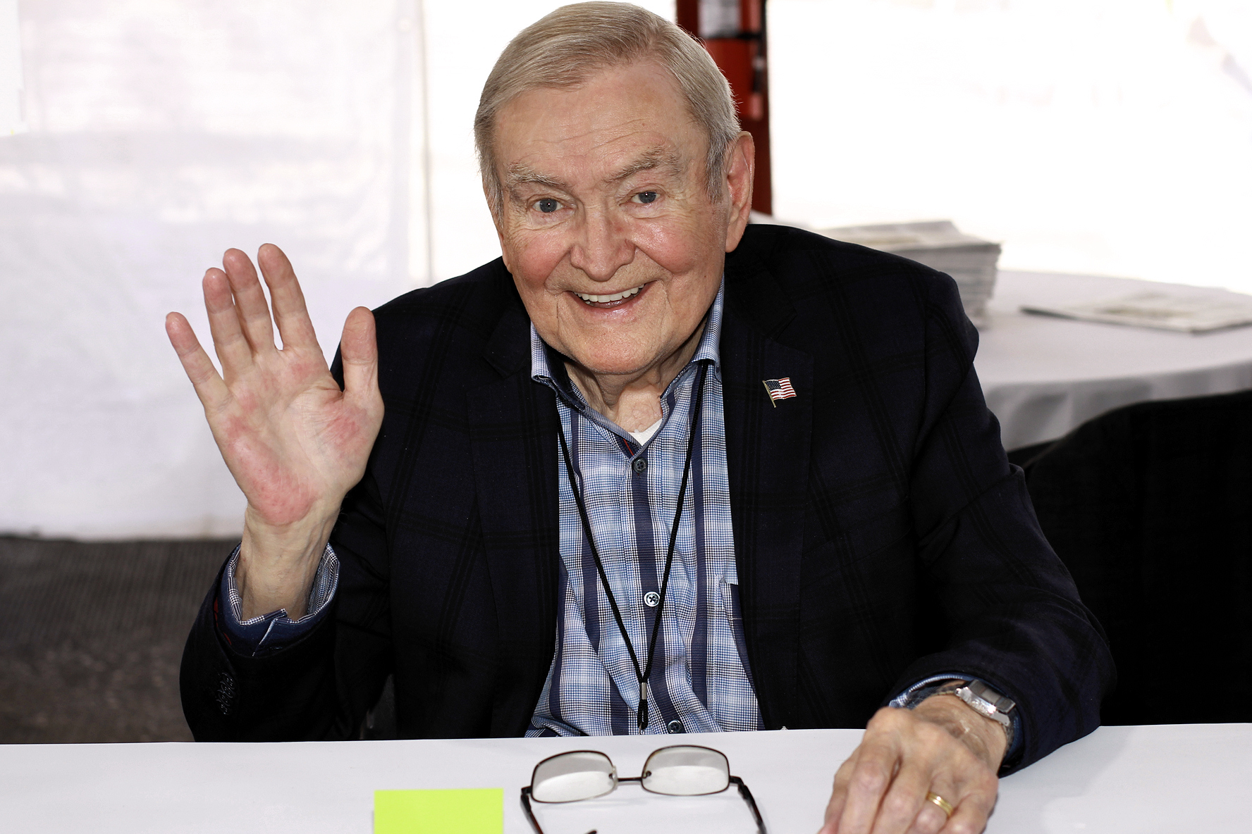 Broadcast journalist Dave Ward at the 2019 Texas Book Festival in Austin, Texas, United States.